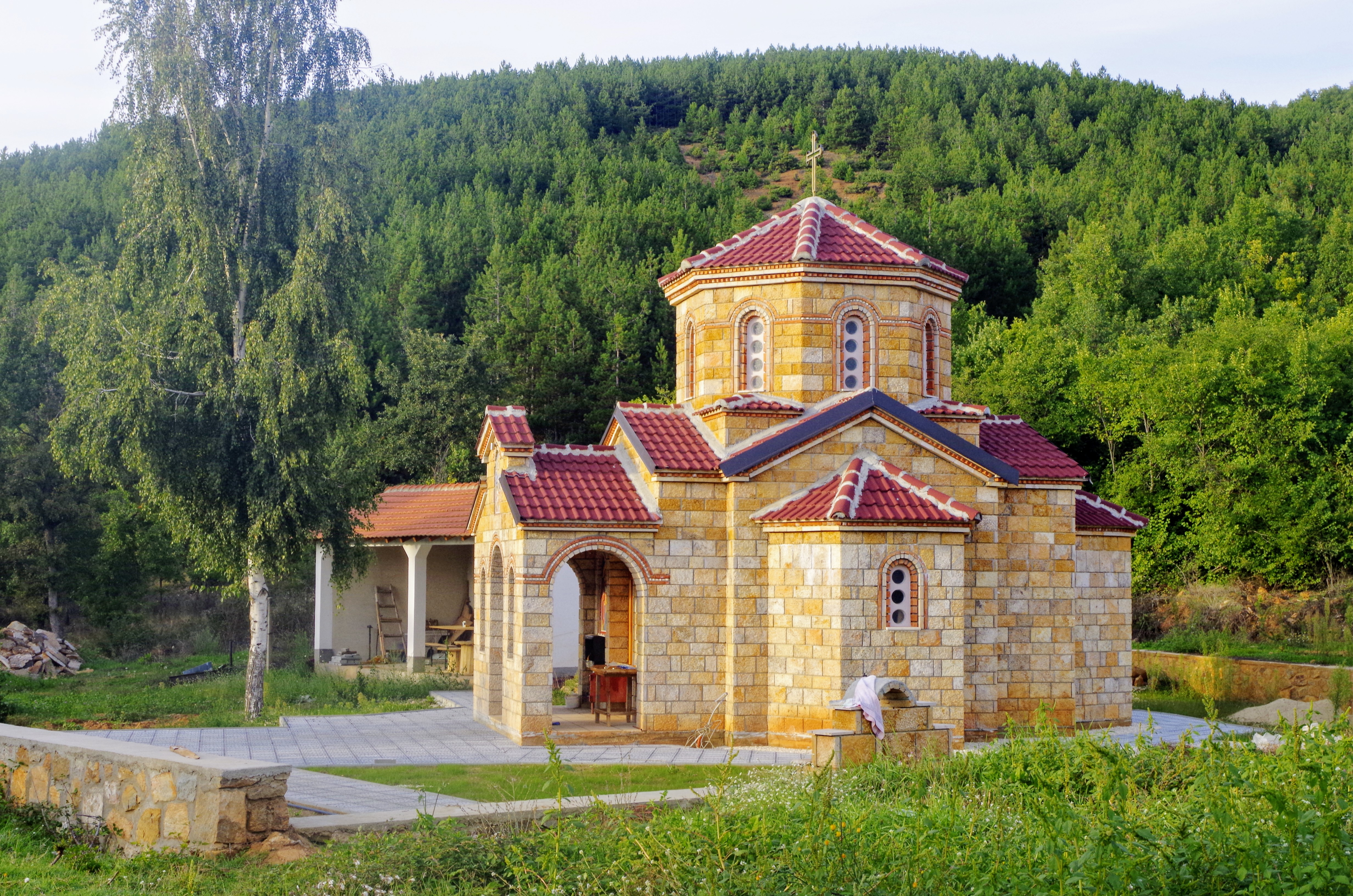 View of the St. Athanasius Church in the village Slivnica